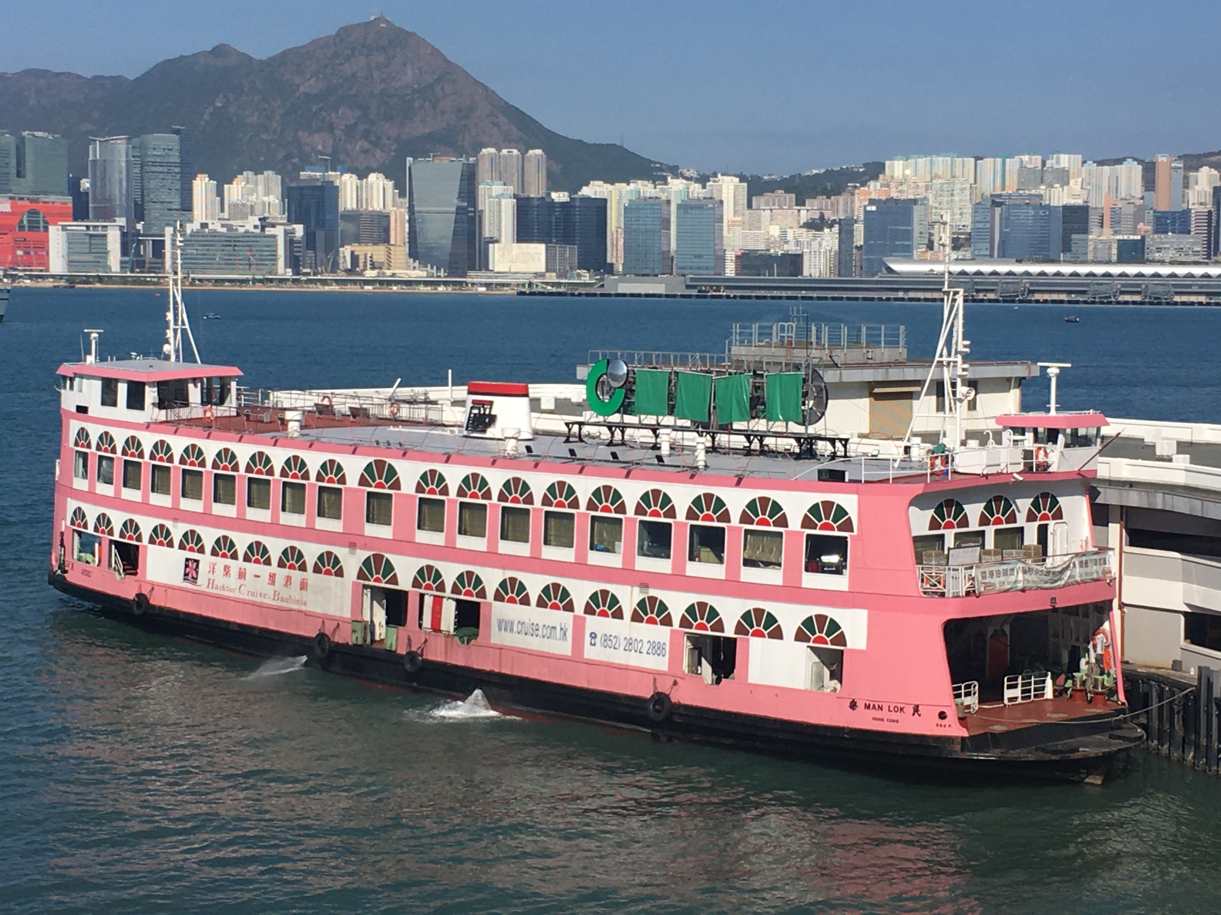 中文（香港）: This photo is taken in North Point.